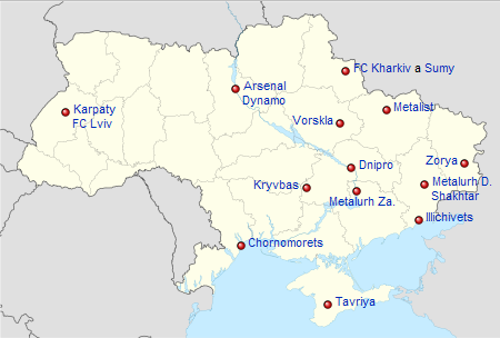 Location of teams partecipating in the Ukrainian Premier League 2008-09